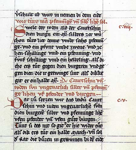 Zürich : 'Richtebrief' (1304)